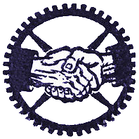 The logo of the former American Labor Party